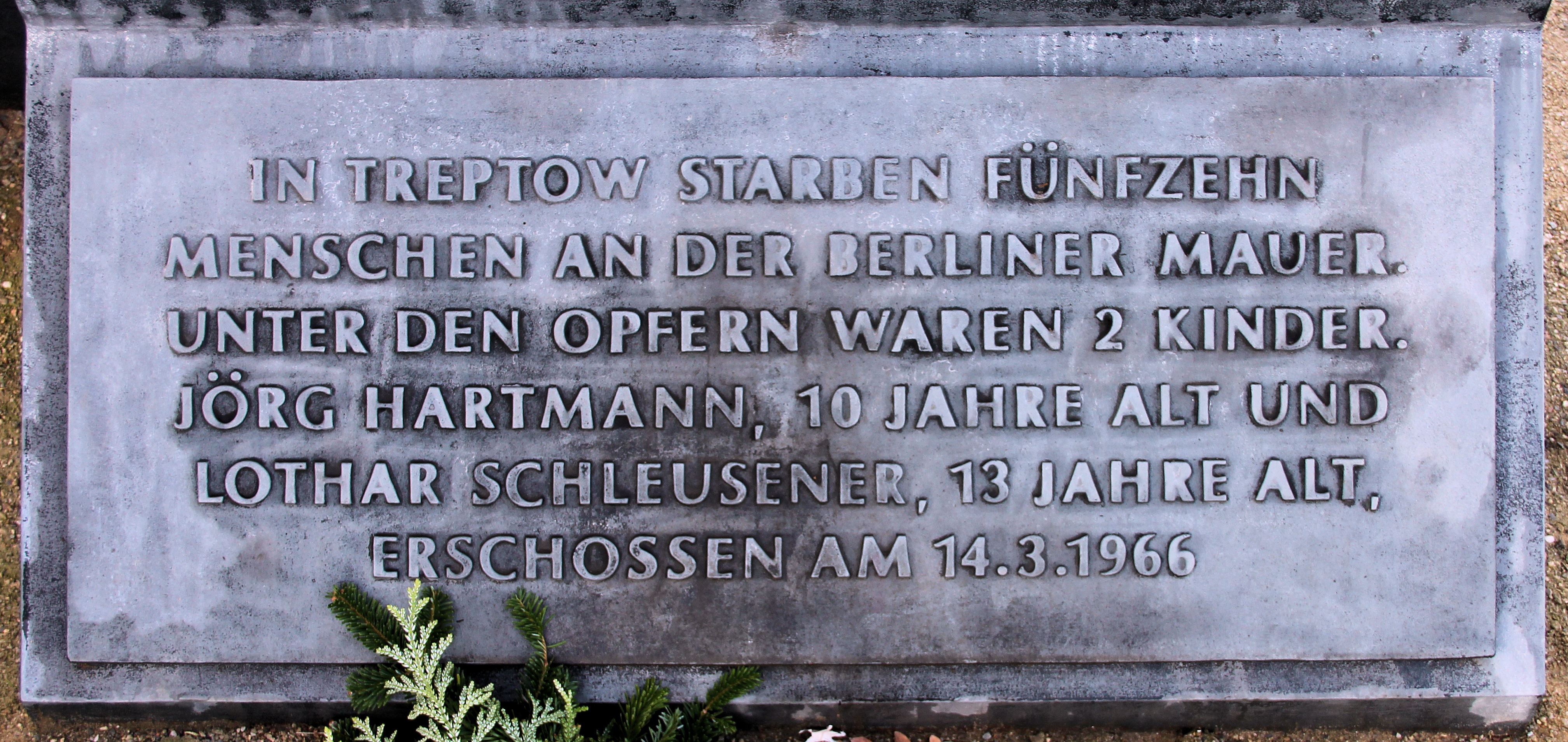 Memorial plaque, Jörg Hartmann und Lothar Schleusener, Kiefholzstraße 333, Berlin-Plänterwald, Germany Koordinate:52°28′36″N 13°28′16″E / 52.47667°N 13.47111°E